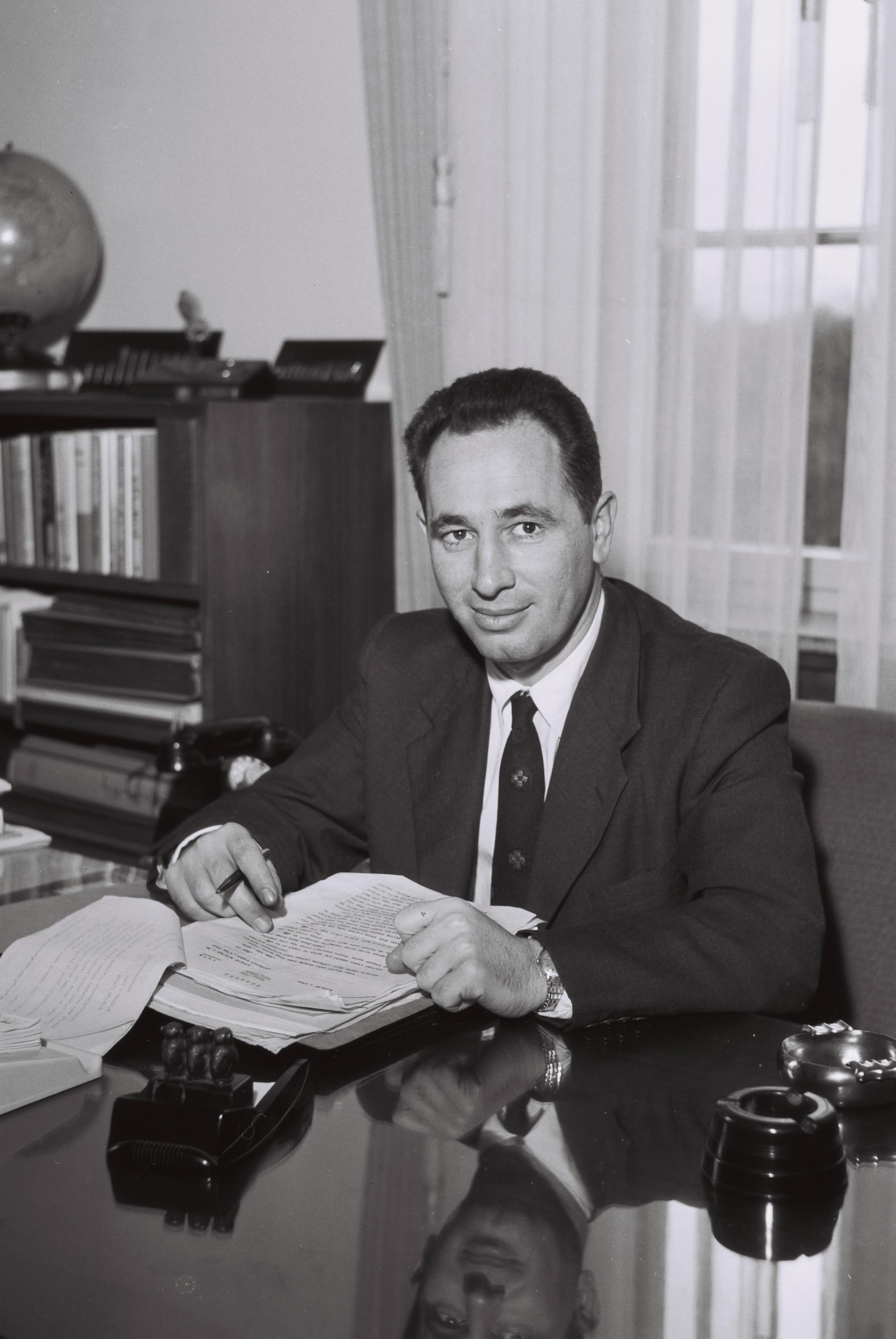 Shimon Peres, Director-General of the Defense Ministry. שמעון פרס מנכל משרד הביטחון